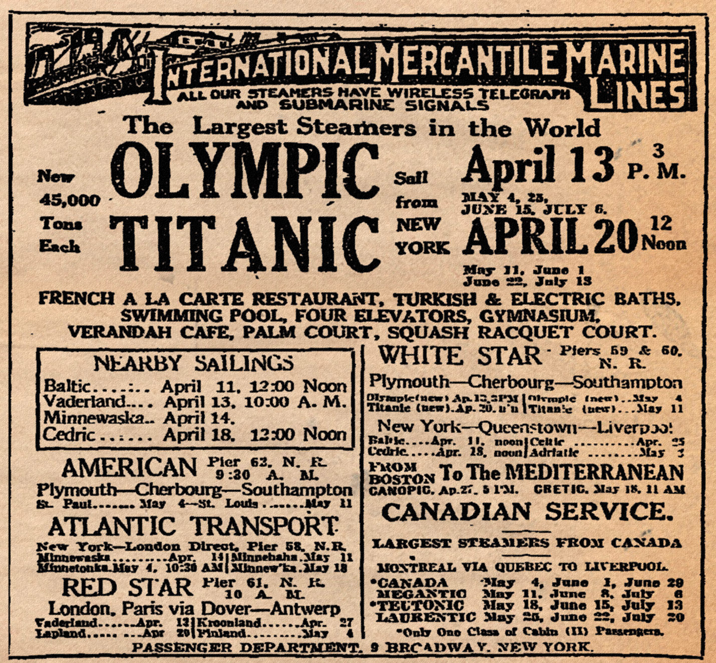 Display advertisement from the New York Times for the intended first Eastbound transatlantic sailing of the White Star Line ocean liner RMS Titanic from New York to Europe scheduled to depart from White Star's North River (Hudson) Pier 59 at noon on April 20, 1912. This sailing never took place because of the Titanic's loss on April 15 during its maiden voyage to New York.